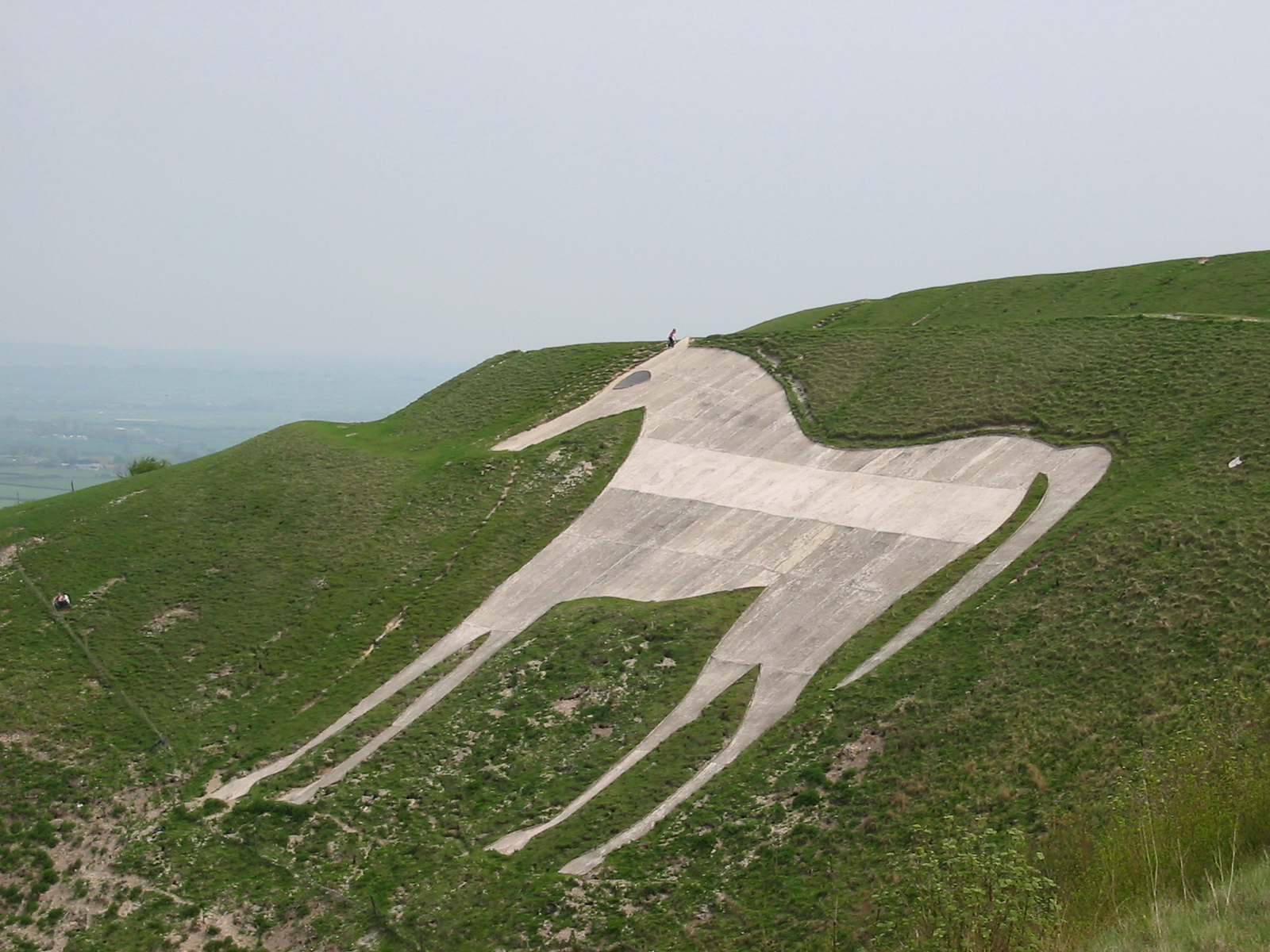 Westbury White Horse, Chalk Horse nr Bath